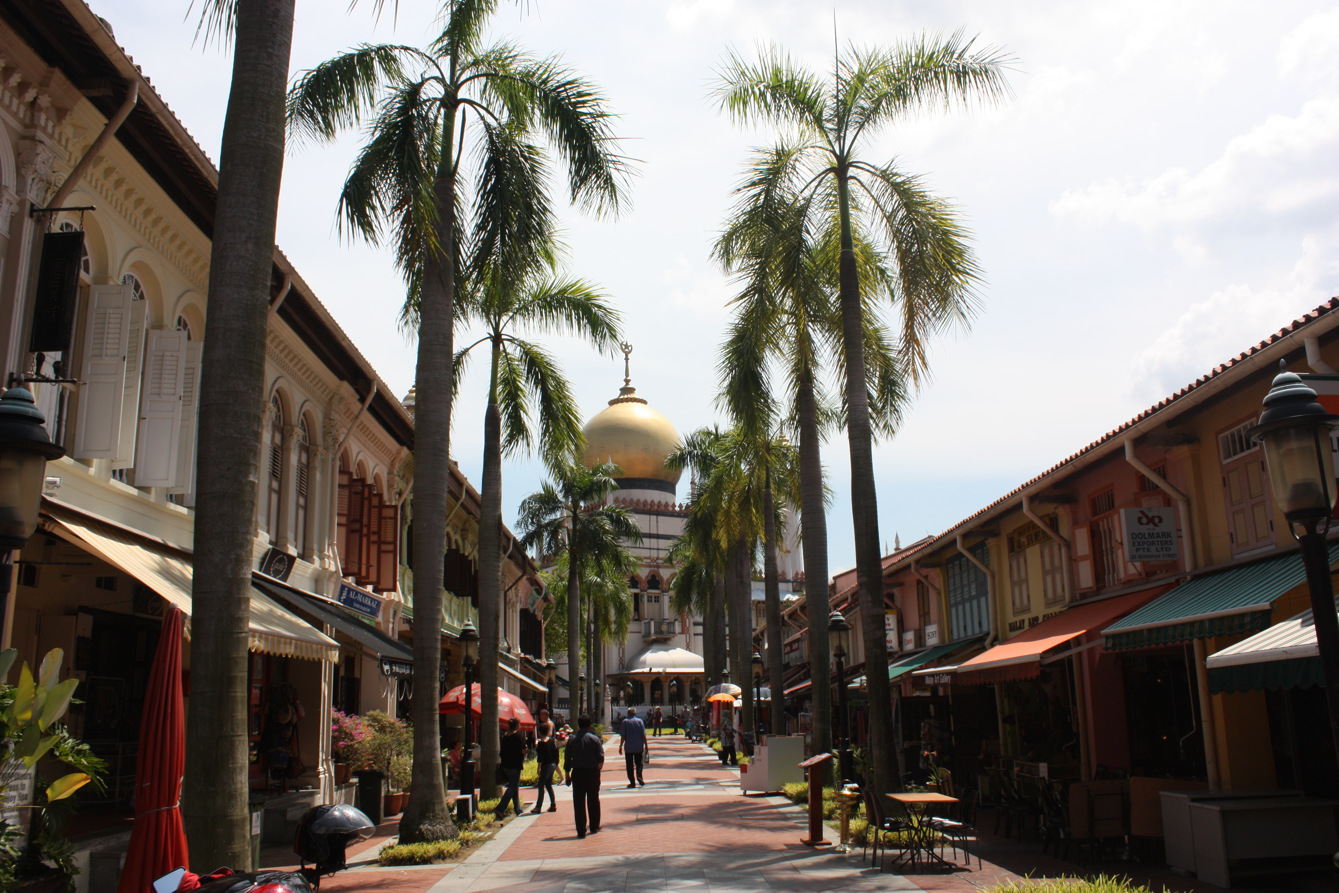 Image of Masjid Sultan and Bussorah Pedestrian Mall at Kampong Glam / Photo by Wolfgang Holzem /